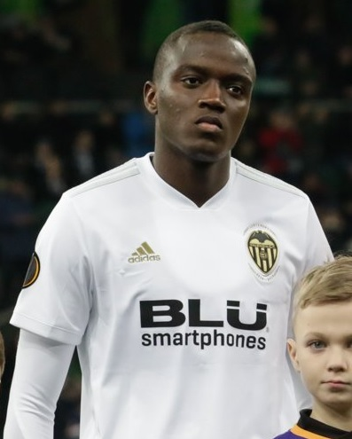 Mouctar Diakhaby with Valencia CF before an Europa League game against FC Krasnodar.